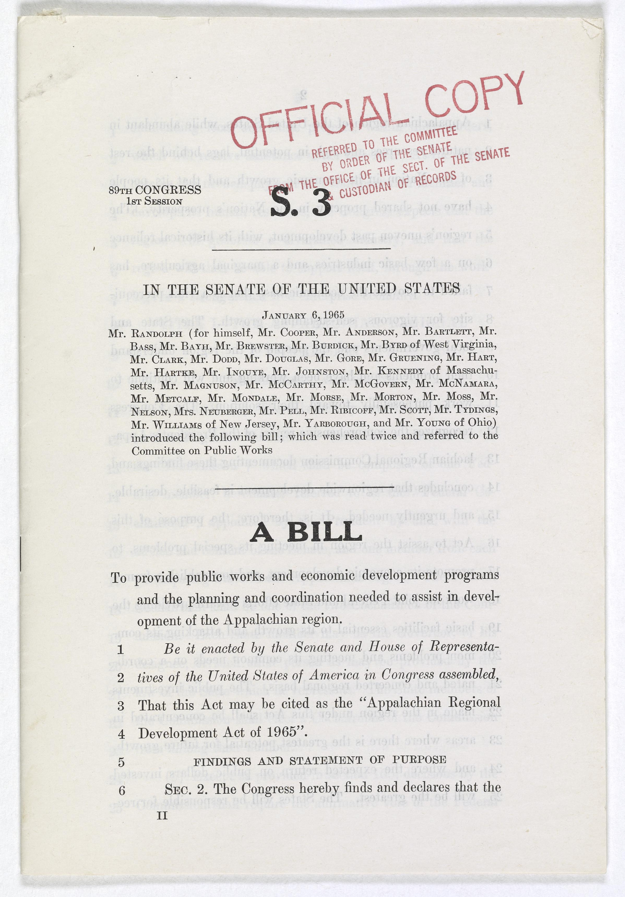 S. 3 Appalachia aid bill." S. 3, January 3, 1965; “S. 3 Amendment No 1-(Hart, McCarthy, Mondale & Nelson, Doc. 1)” folder, Box 1; Senate Committee on Public Works; 89th Congress; Records of the U.S. Senate, RG 46; National Archives.